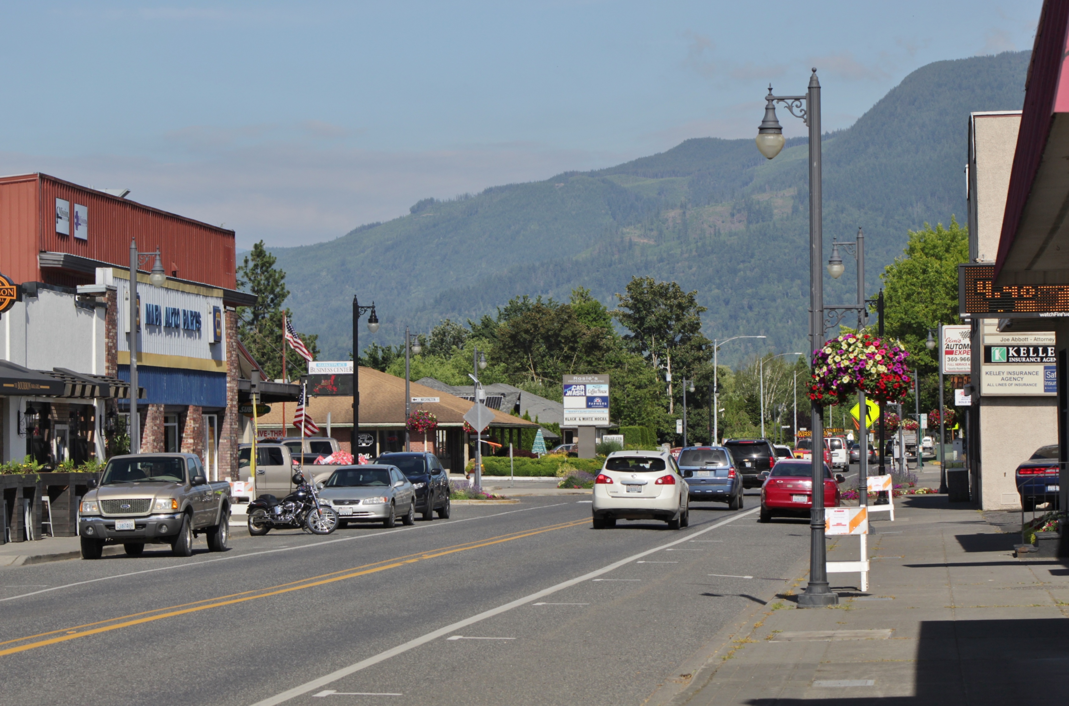 Looking east down Main Street in Everson, Washington, signed as part of State Route 544.